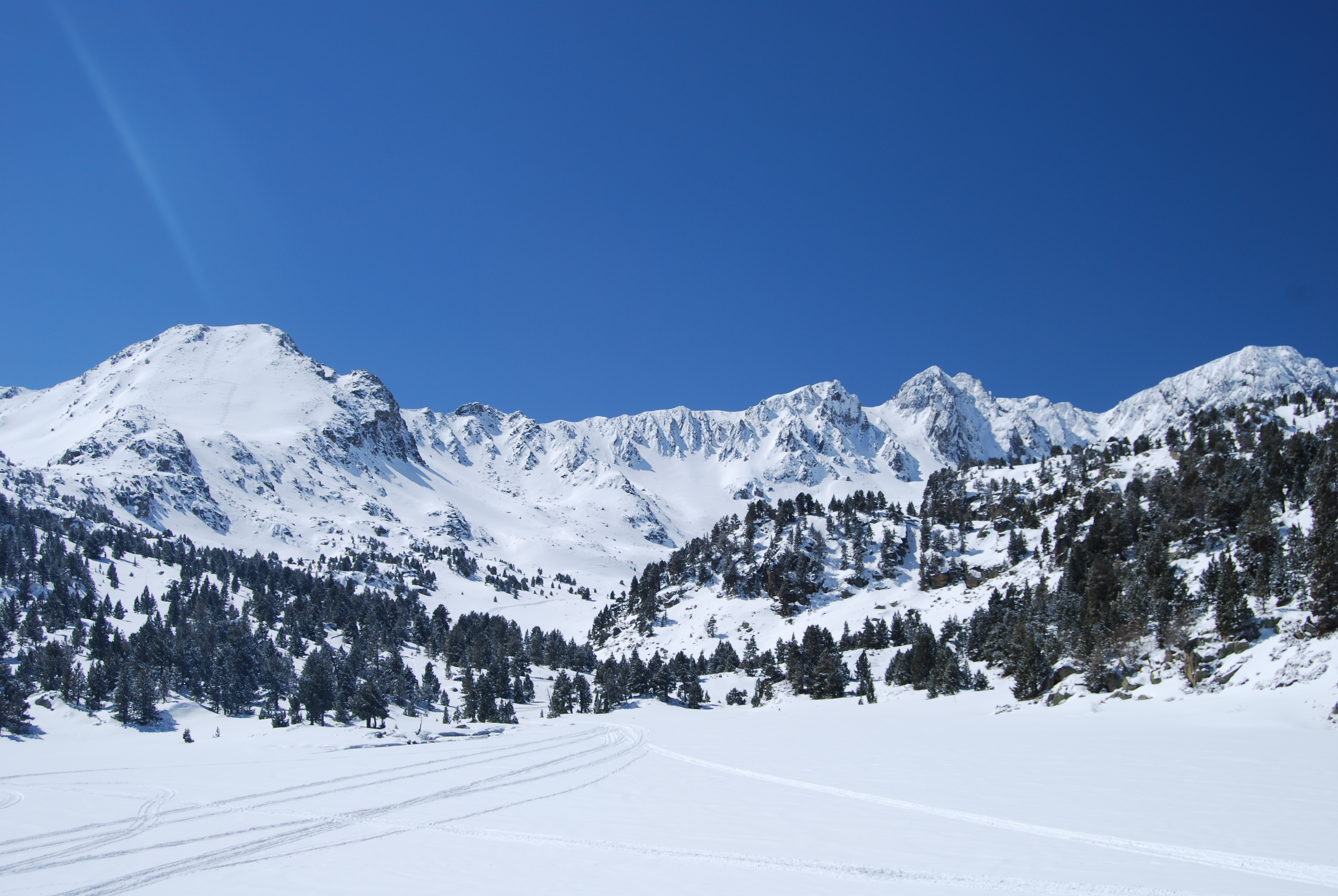 View of Circ dels Pessons, Grau Roig, Andorra; part of the Grandvalira ski resort